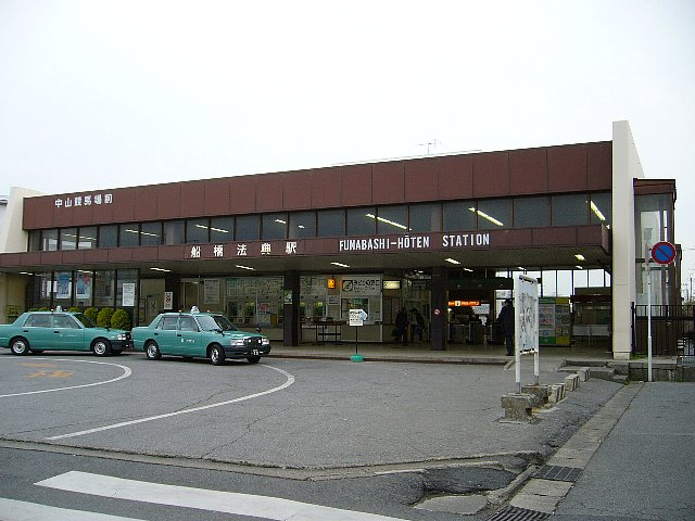 Funabashi-Hōten Station on the JR East Musashino Line